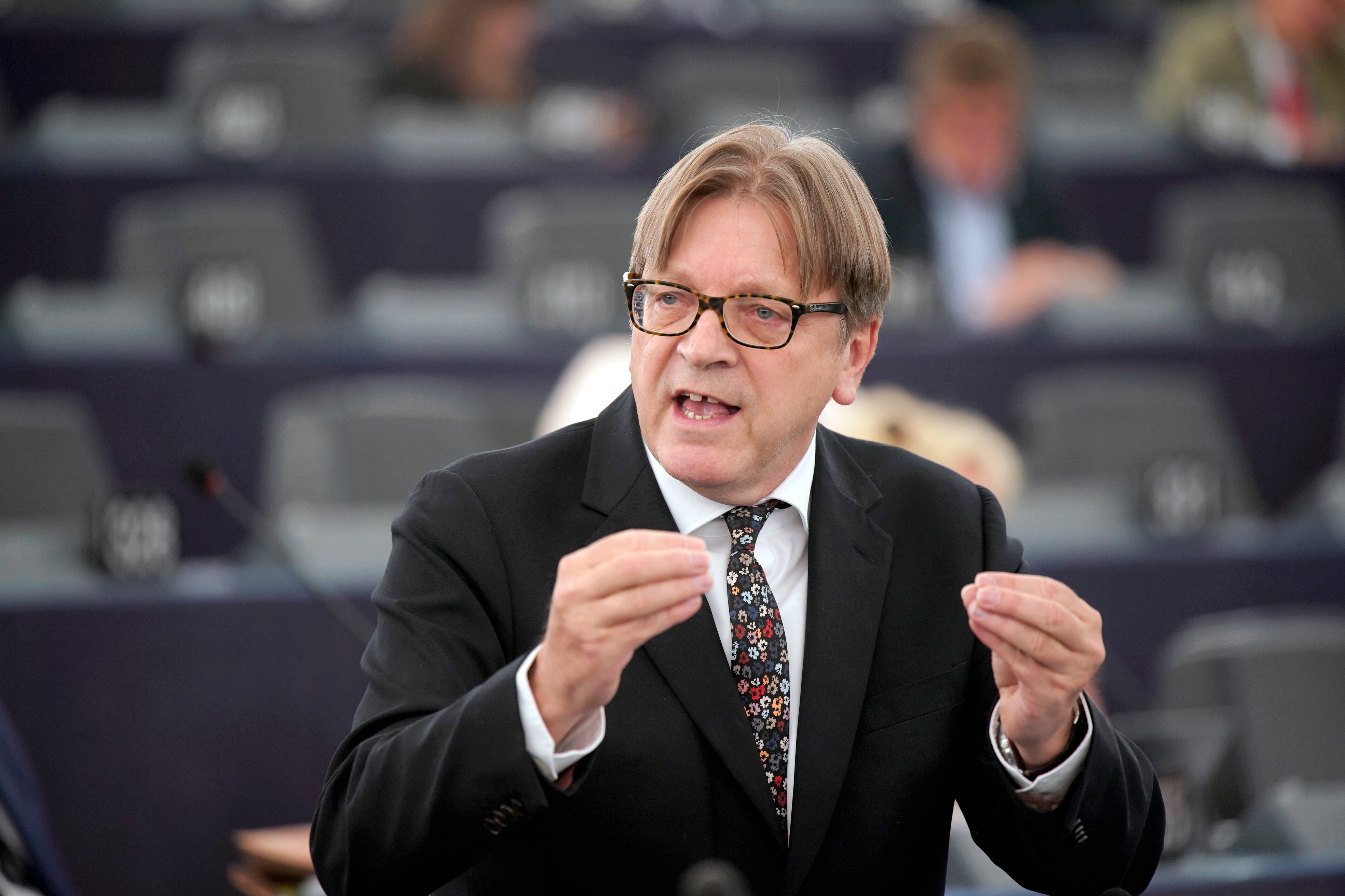 Read more: This photo is free to use under Creative Commons license CC-BY-4.0 and must be credited: "CC-BY-4.0: © European Union 2019 – Source: EP". No model release form if applicable. For bigger HR files please contact: webcom-flickr(AT)